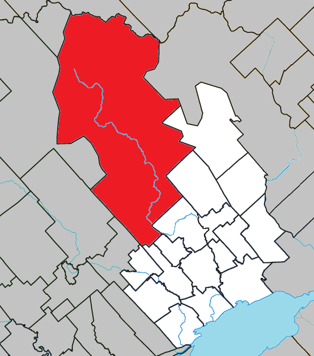 Location of Saint-Alexis-des-Monts, Quebec within Maskinongé Regional County Municipality.